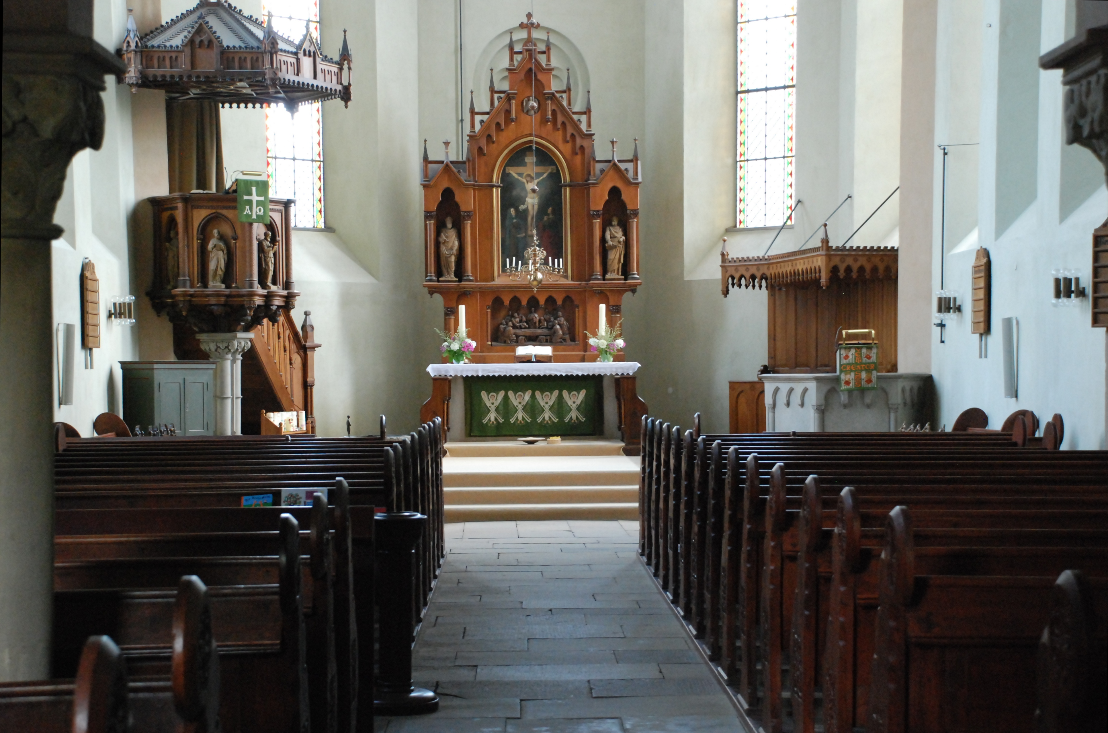 Interior of the church of the monastery Mariensee, Lower Saxony, Germany